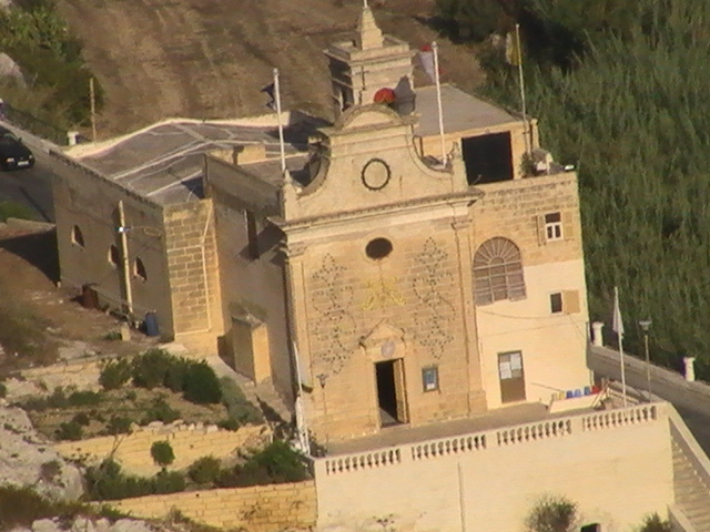 Photo of Mount Carmel Church in Xlendi